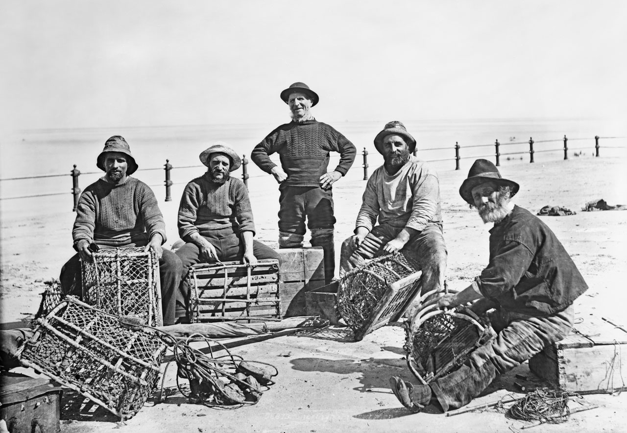 Fishermen with lobster pots, Sheringham, Norfolk Sheringham, like nearby Cromer, is renowned for its fine crabs and lobsters. Here the fishermen are posed around the local style of lobster pot, several dressed in their sea boots and sou’westers. Both farming and fishing had long been important to the local economy. The railway, which reached the town in 1887, enabled local fishermen to sell their wares in London and attracted visitors to the town. Fishermen with lobster pots, Sheringham, Norfolk